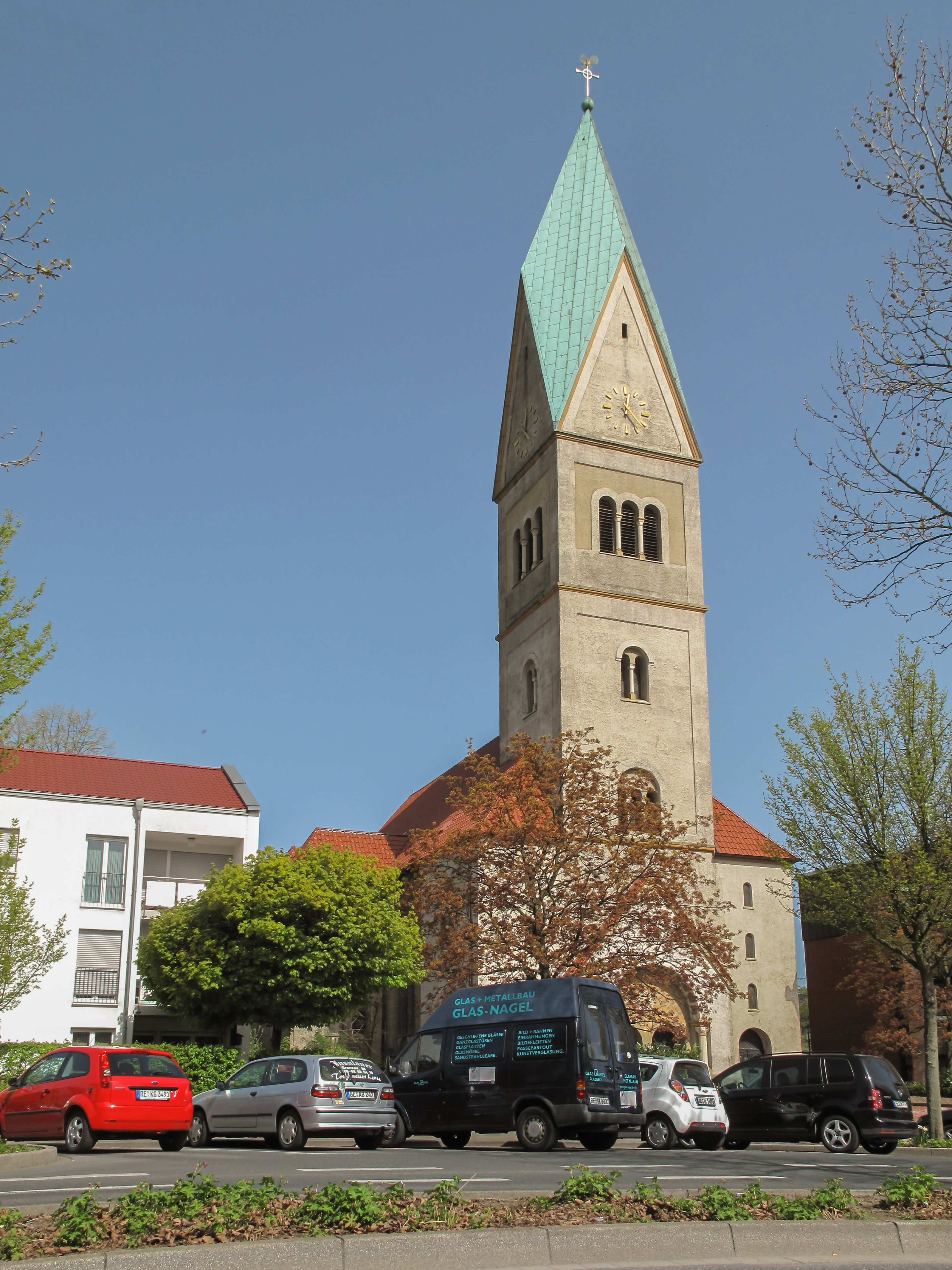 Gladbeck, church